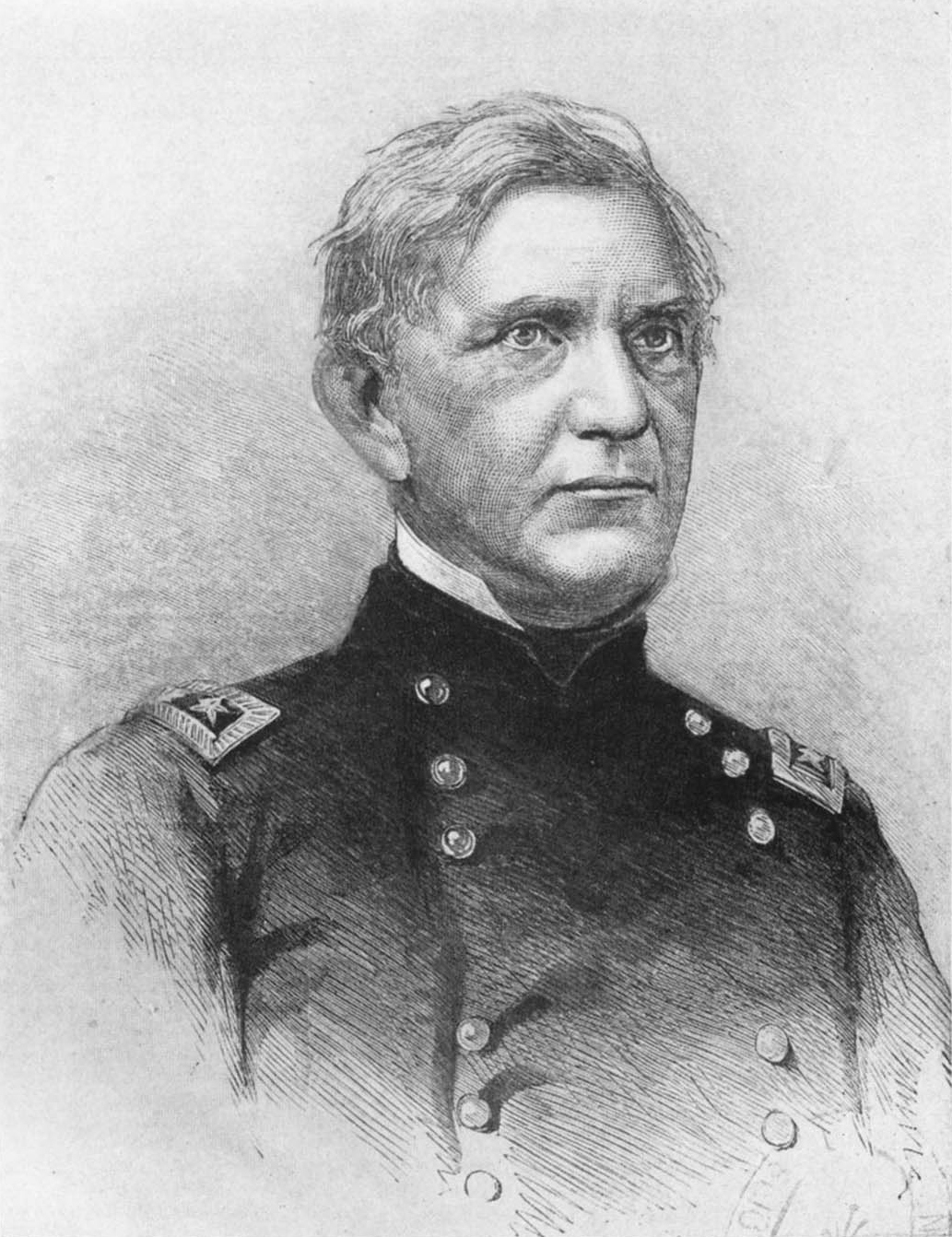 Black-and-white half-length portrait drawing of Union Civil War Major General Edward Canby.